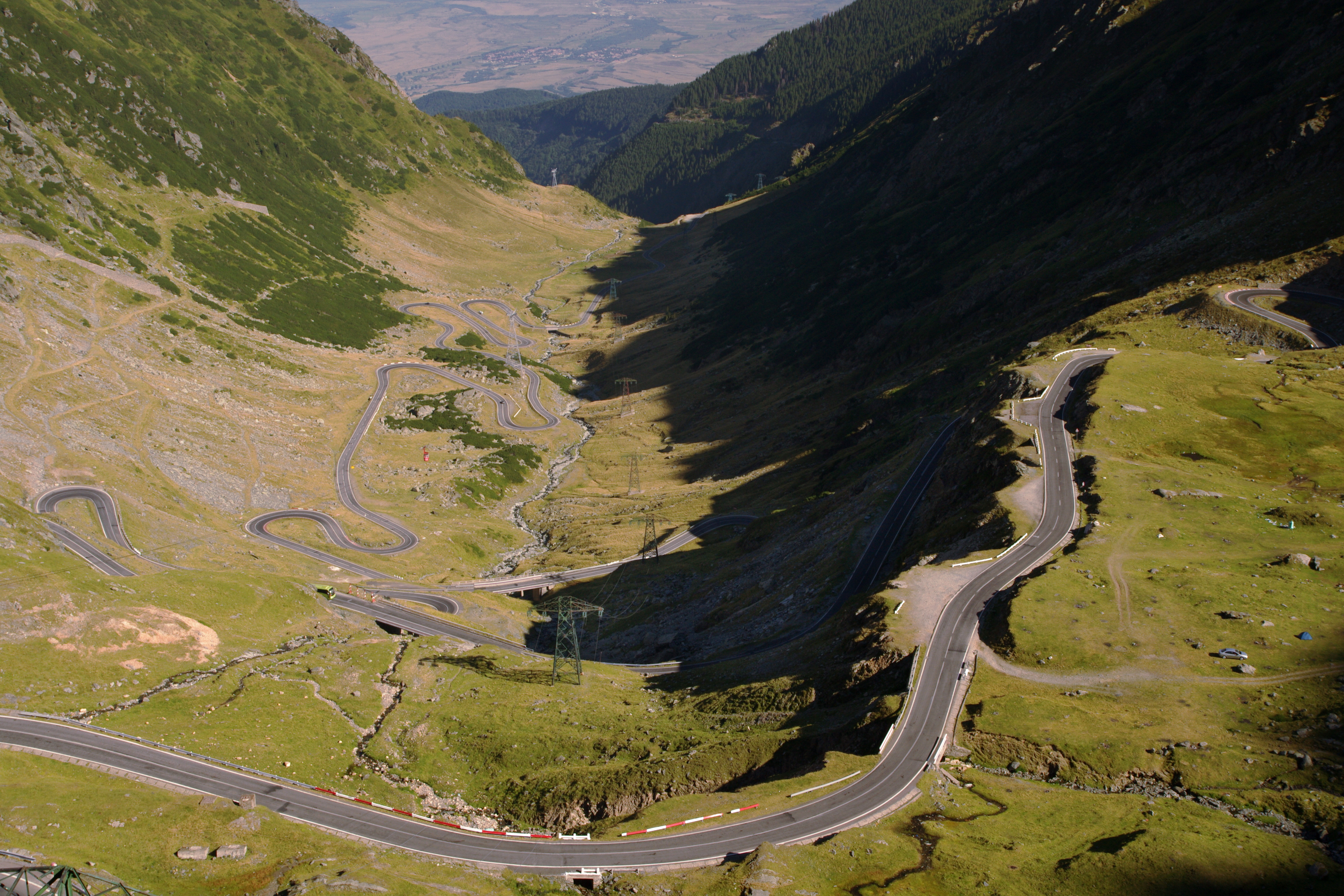 Transfagarasan, the northern part